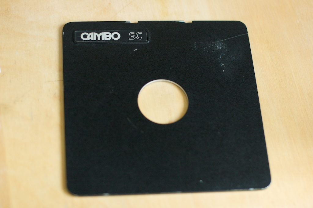 Cambo lens board with Copal #1 hole drilled